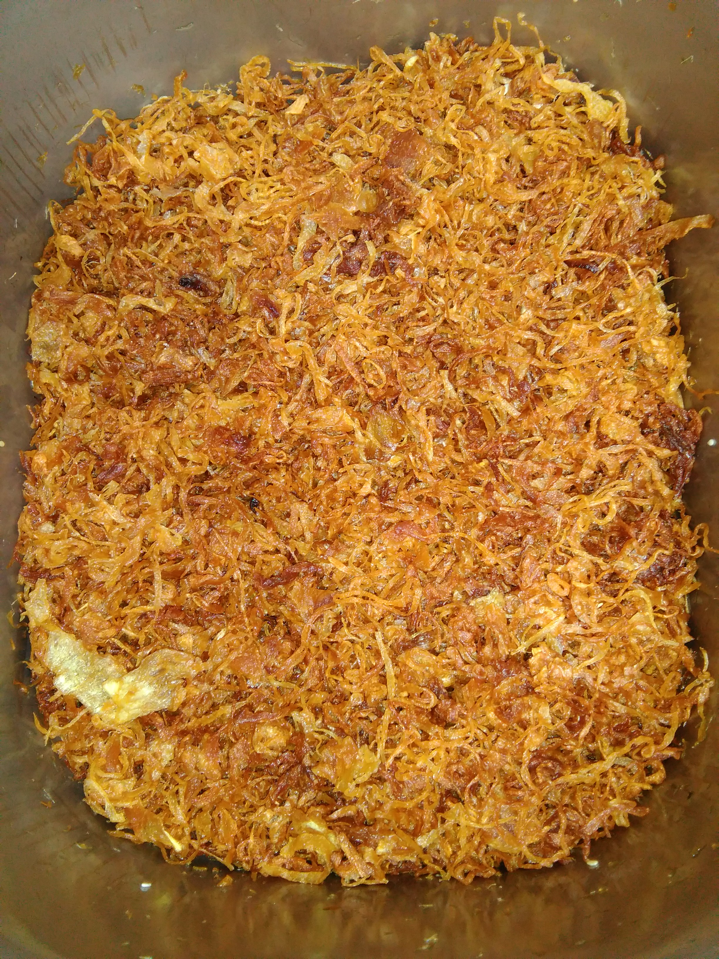 Iranian Fried onion